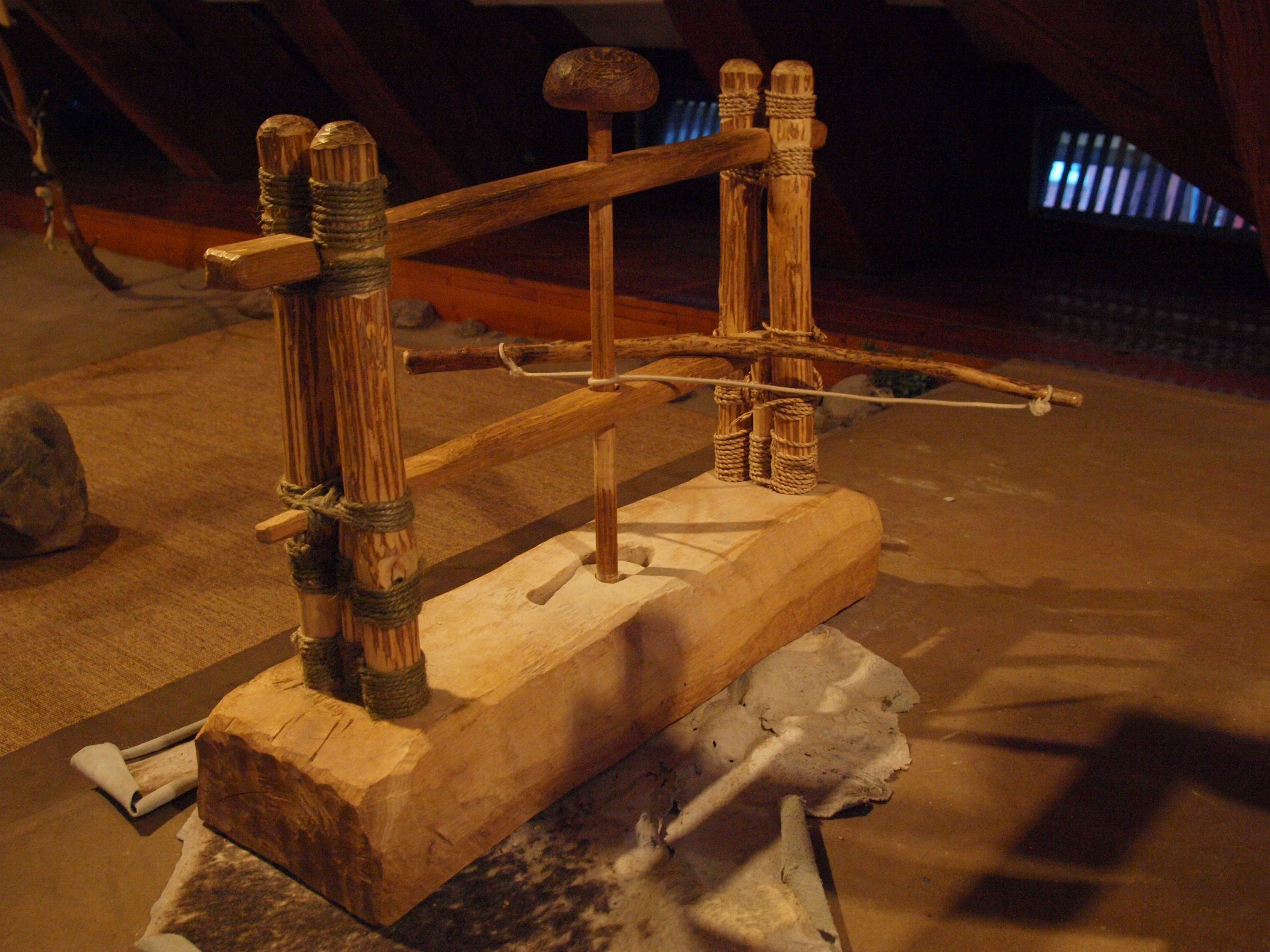 Apparatus for drilling holes into stone axes at Schwedenspeicher Museum, Stade, Germany